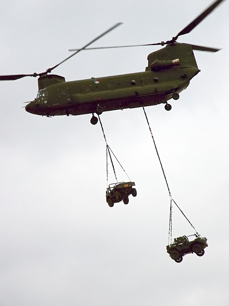 A Chinook demonstrating airlift capabilities